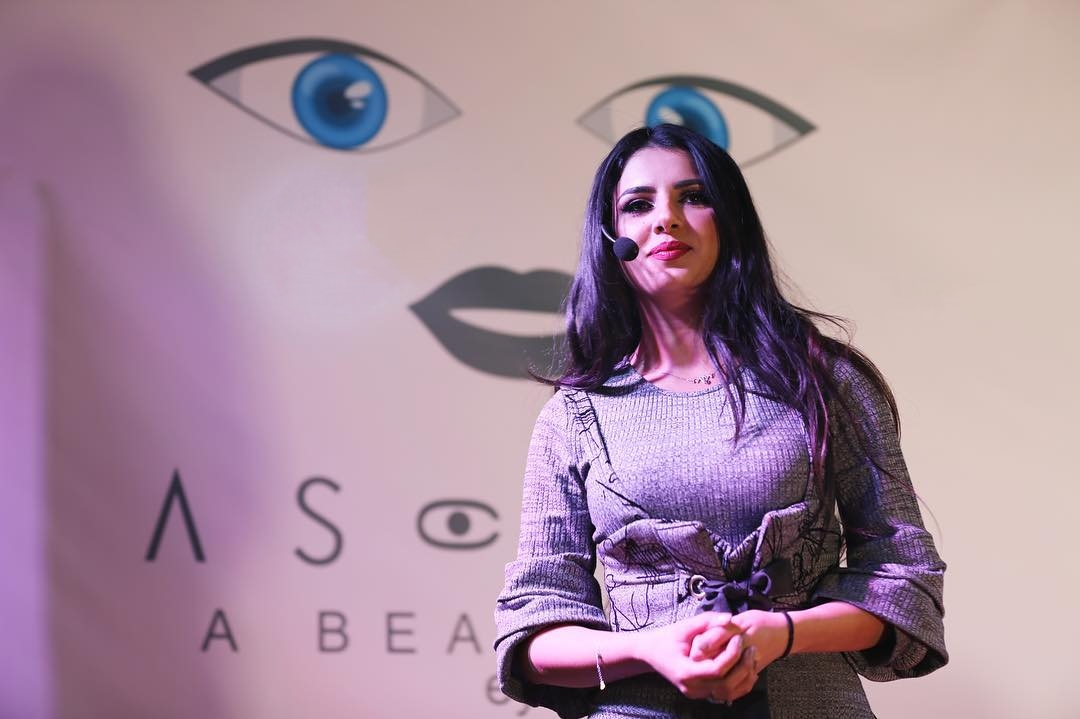 Nawras satar